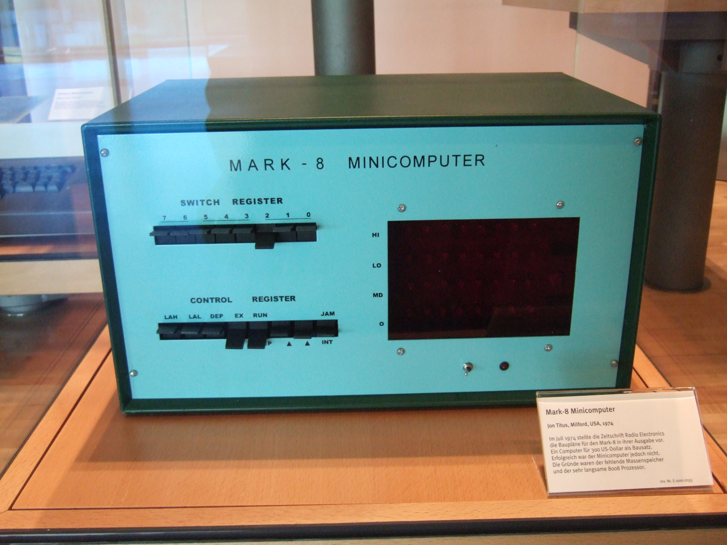 Mark 8 Computer